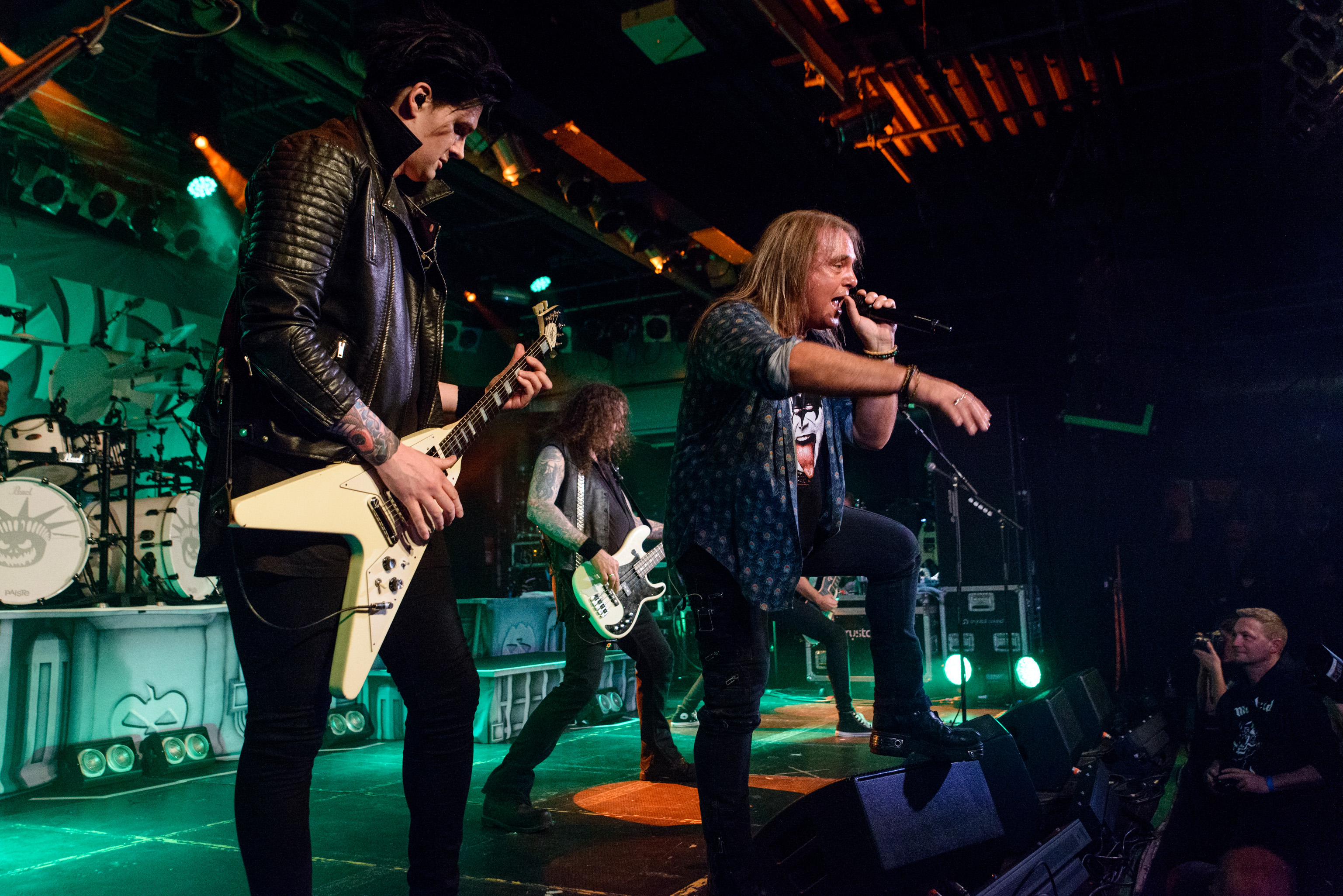 Helloween Live @ Backstage Werk, Munich